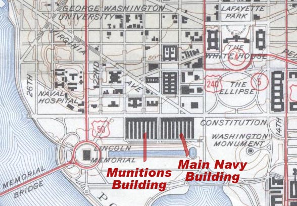 USGS topographic map - Washington West quad, 1945, showing the location of the Munitions and Main Navy Buildings